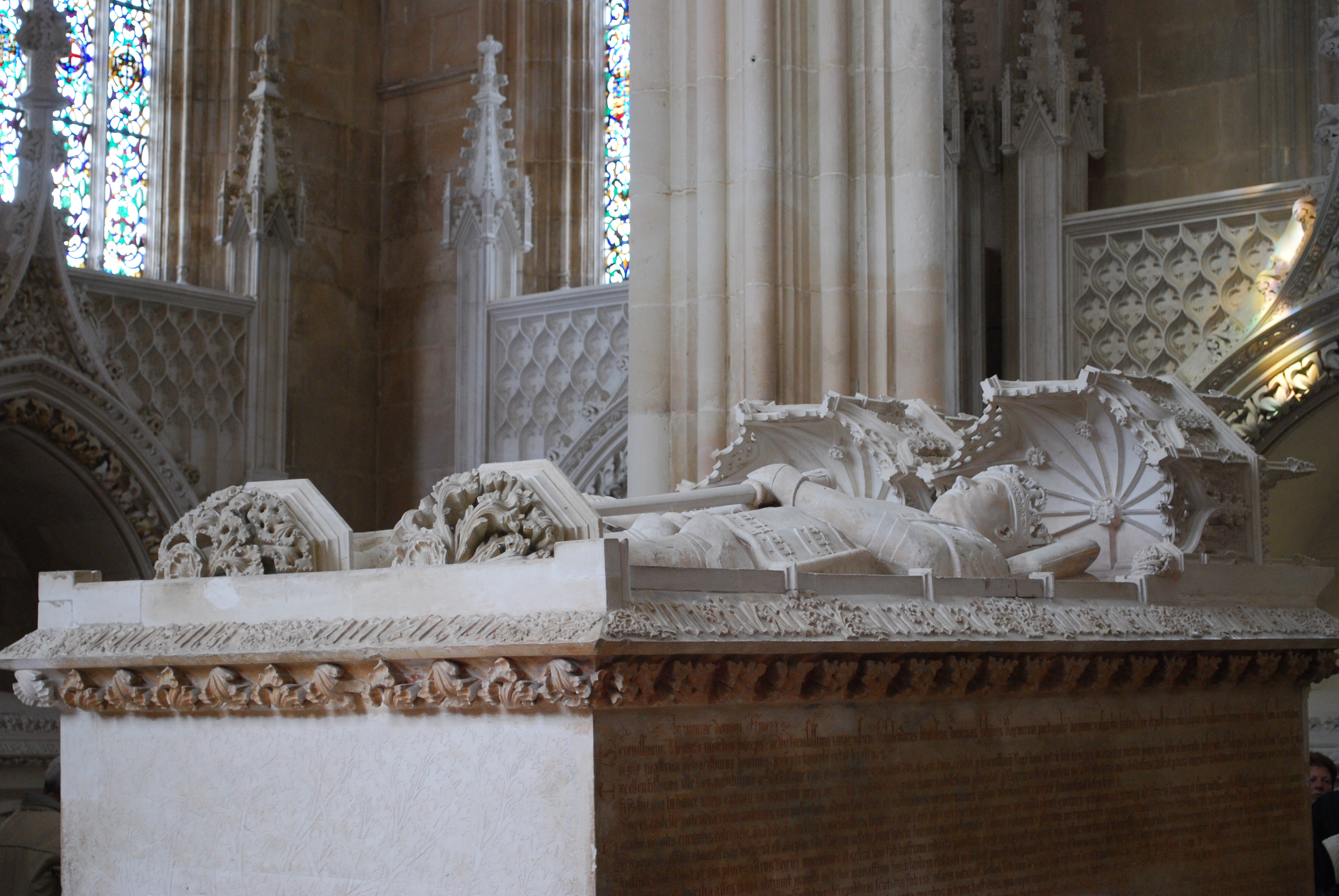 This file was uploaded for Wiki Loves Monuments in Portugal with the unique identifier 70099.